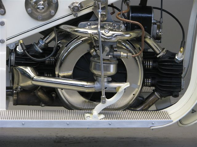 Maybach 955 cc side valve flat twin engine from 1921